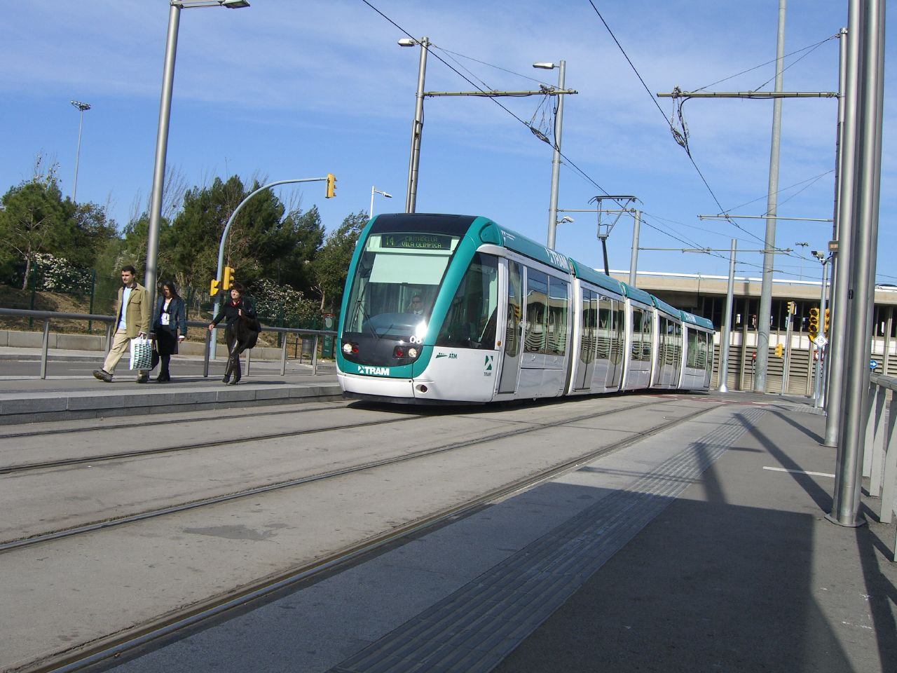 Tram Barcelona